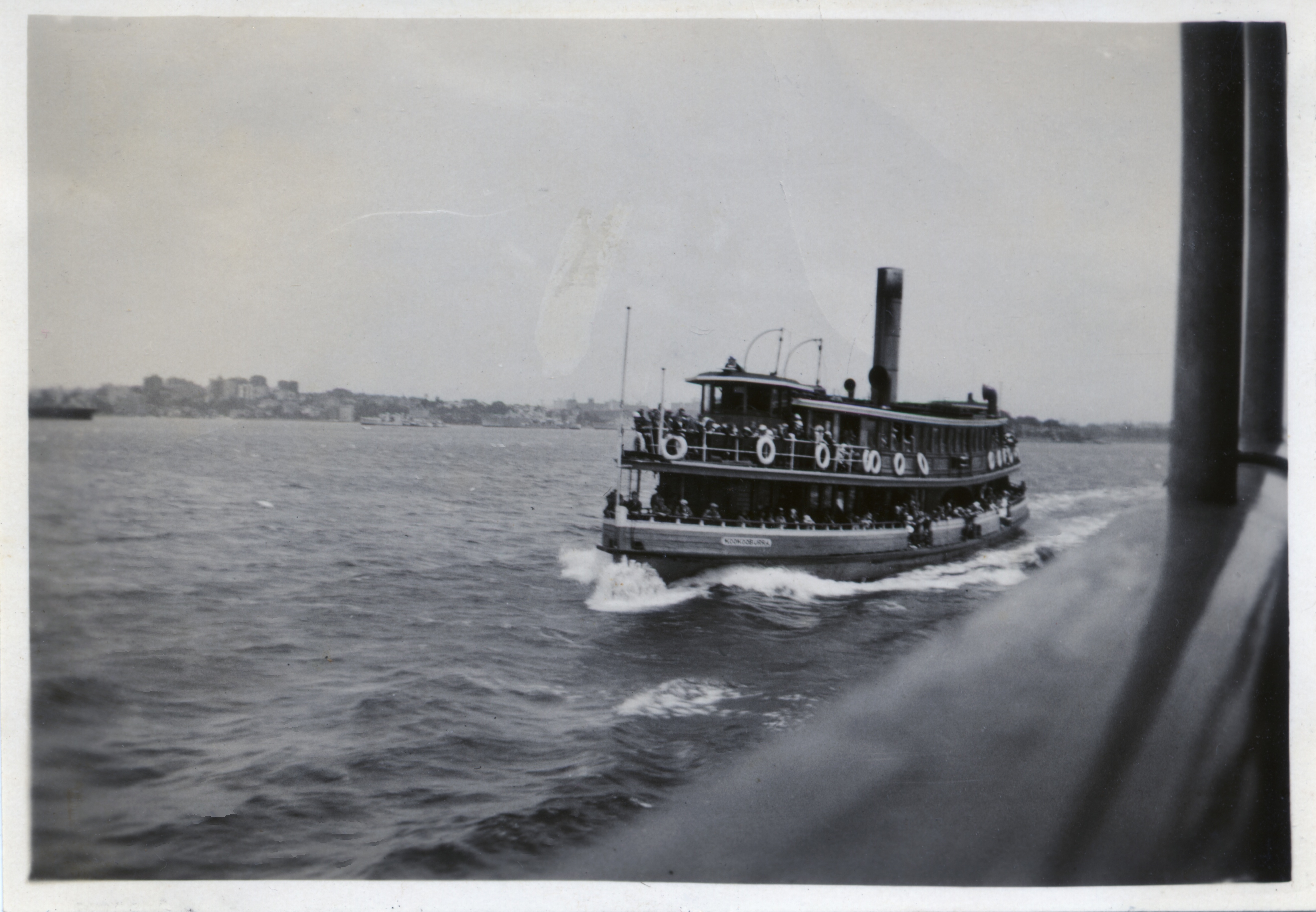 Ferry Kookooburra on Sydney Harbour (built 1907, to Newcastle 1948). Photo likely post 1932 as ferry appears in 1930s updated livery